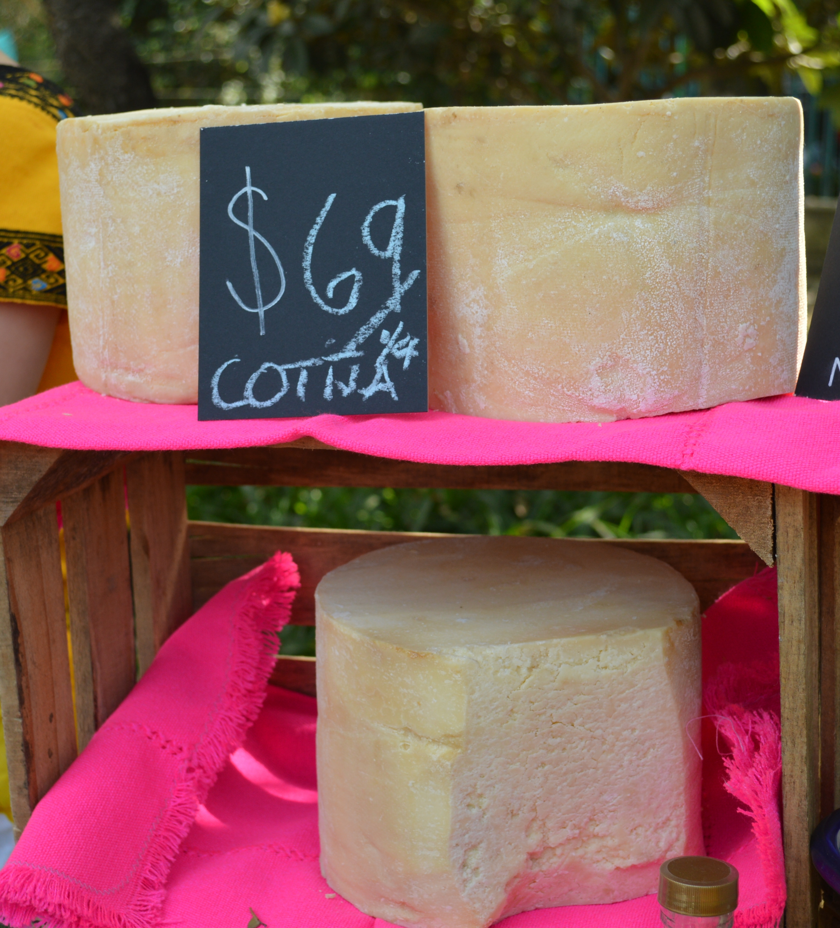 Cotija cheese for sale at the Nuestro Mercado de Quesos Artesanales of the Asociación de Amigos del Museo de Arte Popular, held at Lincoln Park in Polanco, Mexico City